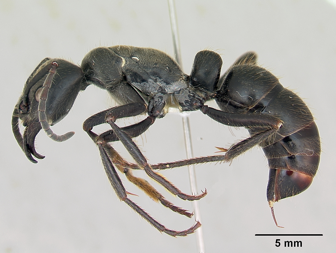 Profile view of ant Dinoponera australis specimen casent0173381.